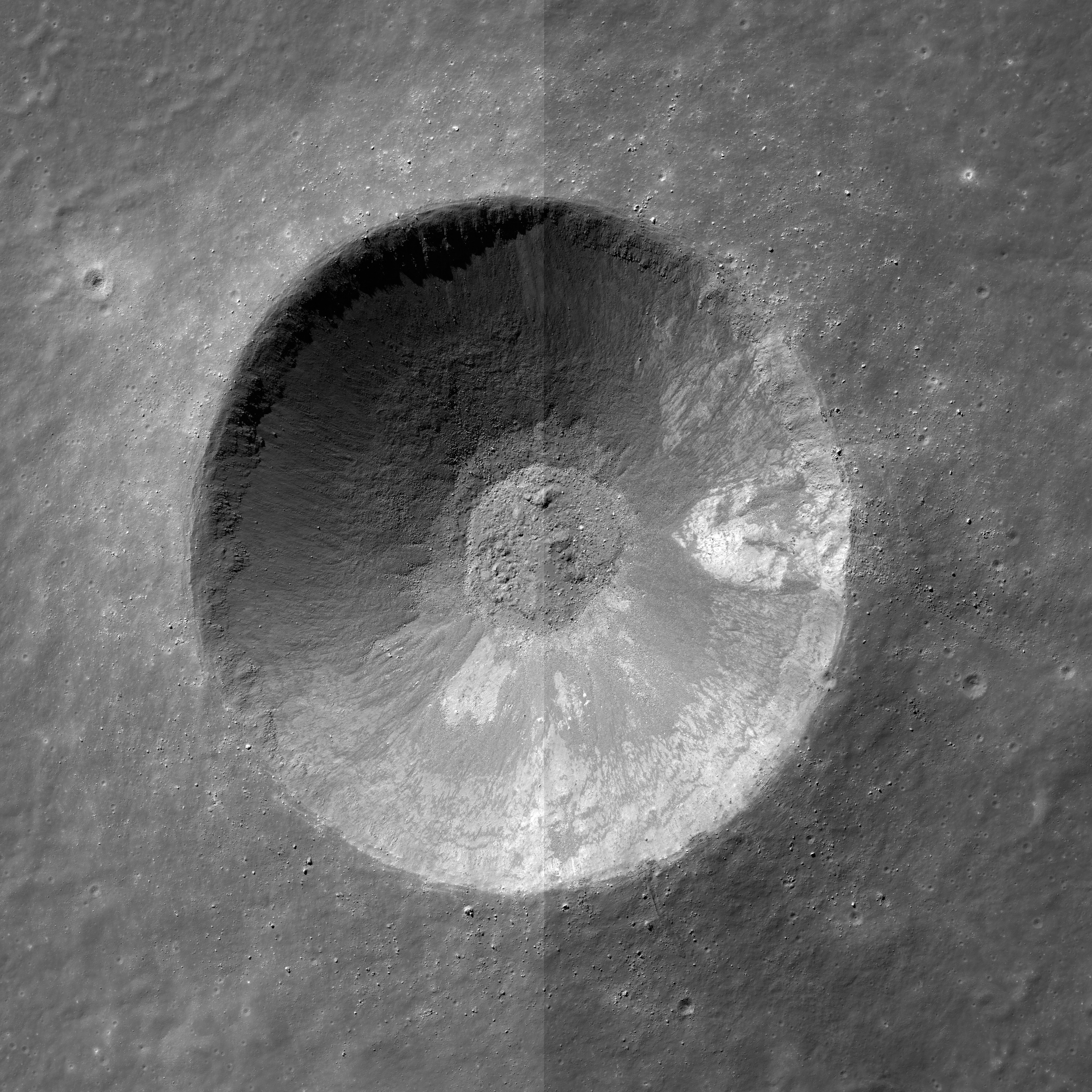 Zhinyu crater, within Von Kármán crater, on the far side of the moon. Image is approximately 5760 m wide.